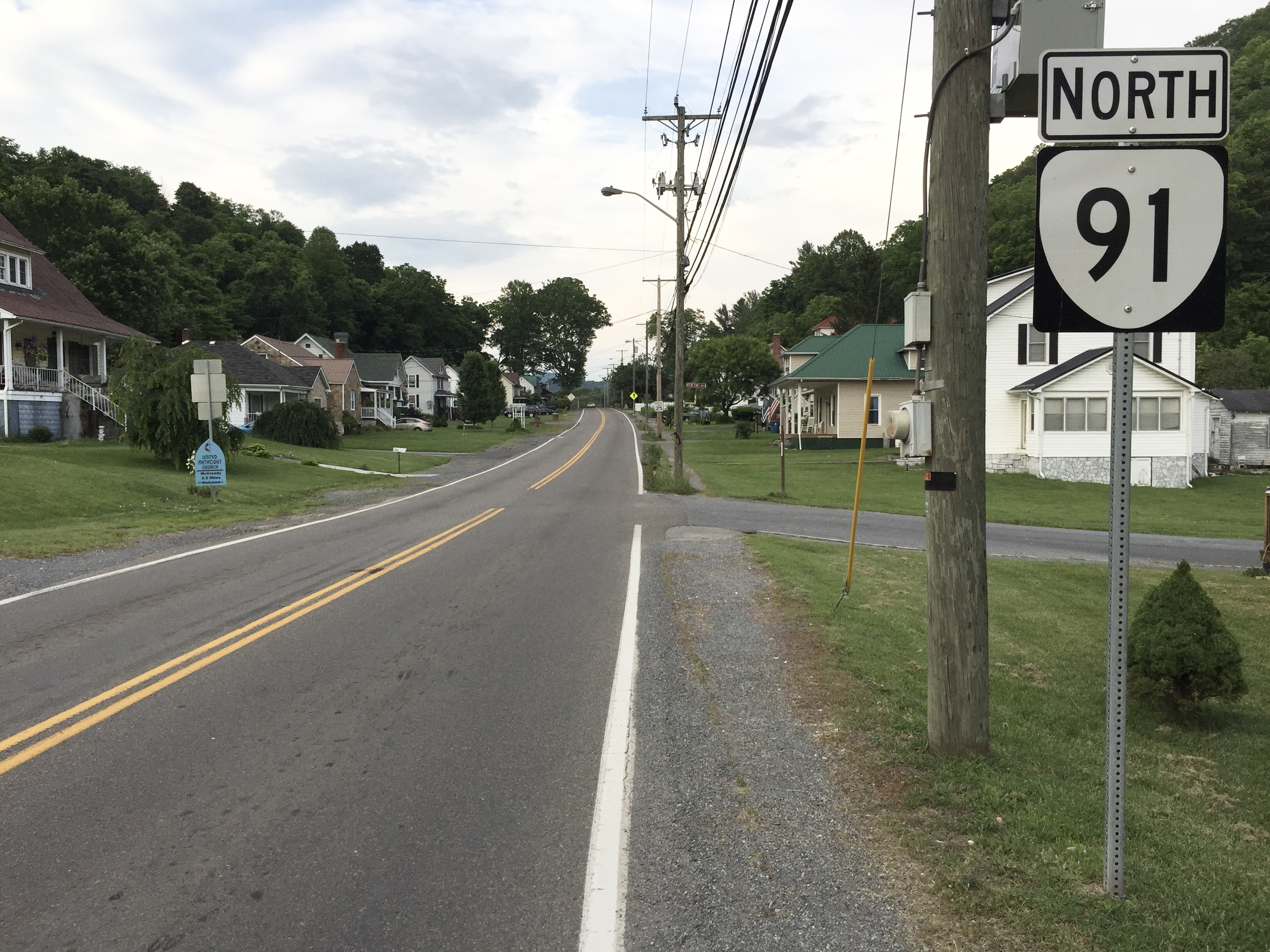 View north along Virginia State Route 91 (Main Street) at 5th Avenue in Saltville, Smyth County, Virginia